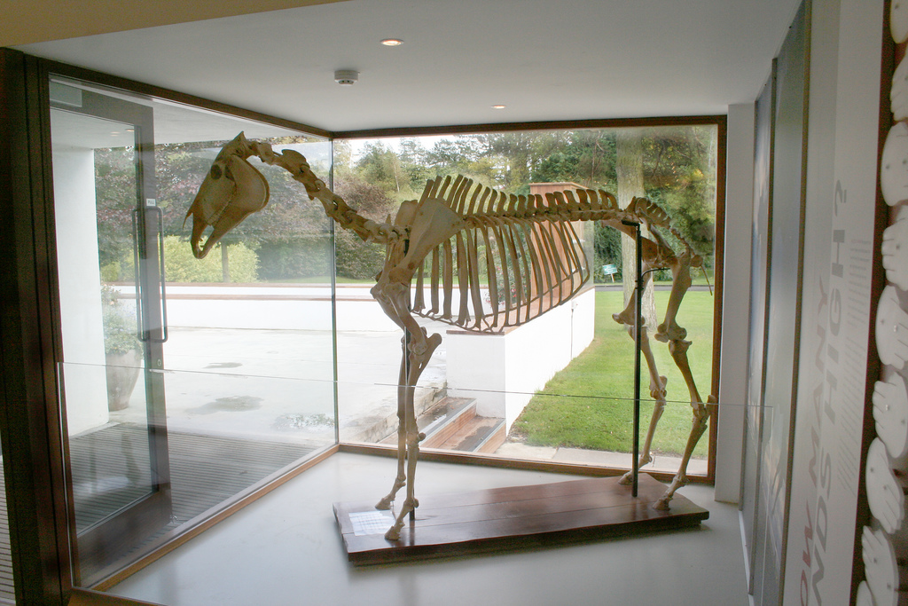 The Irish thoroughbred racehorse Arkle is widely regarded as the greatest steeplechaser in history. Regarded as a remarkable combination of talent, intelligence and bravery, Arkle was also the first horse to capture the imagination of the Irish and British public outside racing circles. He left everyone who witnessed him in awe of his remarkable abilities. Even when he was still around, the general belief was that racing would never see his kind again. Foaled in 1957, Arkle was bred by Mary Baker and later purchased by Anne, the Duchess of Westminster. He was sired by Archive and the mare Bright Cherry. His grandsire was the undefeated Nearco, one of the best flat racehorses ever. This photograph of Arkle's skeleton was taken at the Irish National Stud in County Kildare, Ireland.